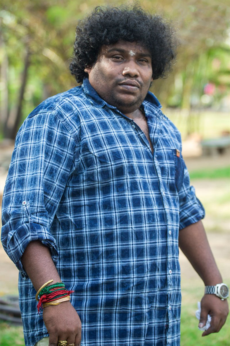 Yogi Babu at the Sema Press Meet